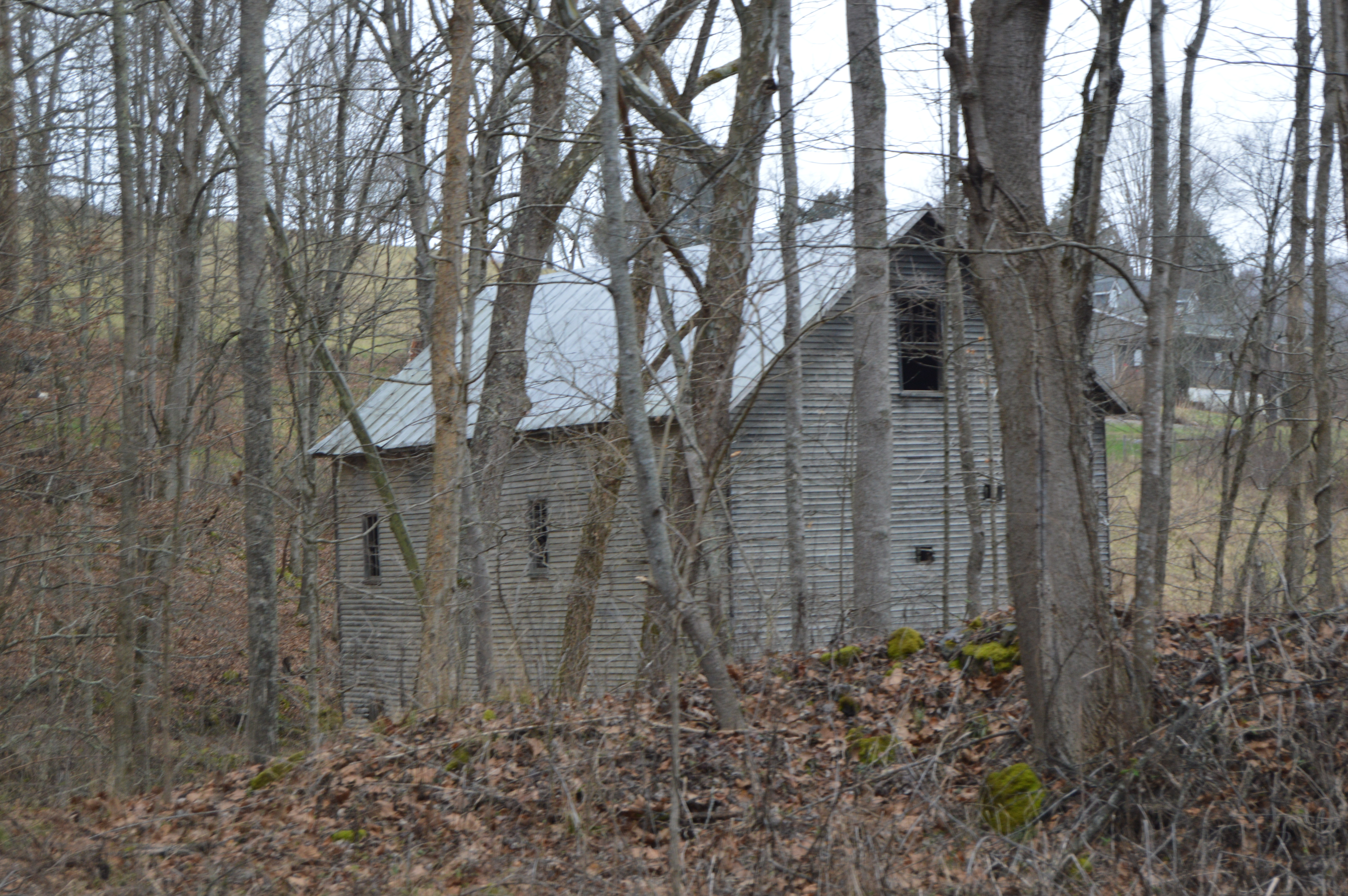 Roadside view of Jessees Mill, located on Jessees Mill Road southwest of Cleveland in Russell County, Virginia, United States. Built in 1890, it is listed on the National Register of Historic Places.